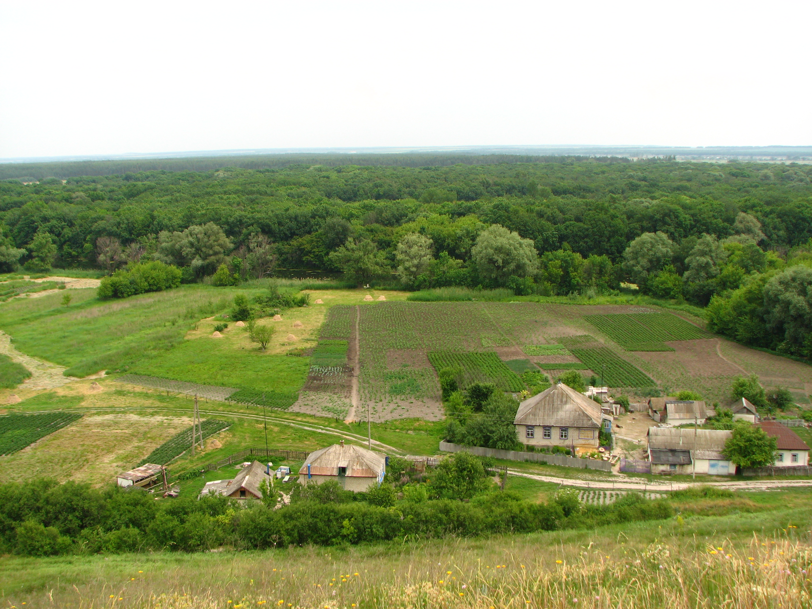 View of Petrenkove, Luhansk Oblast, Ukraine